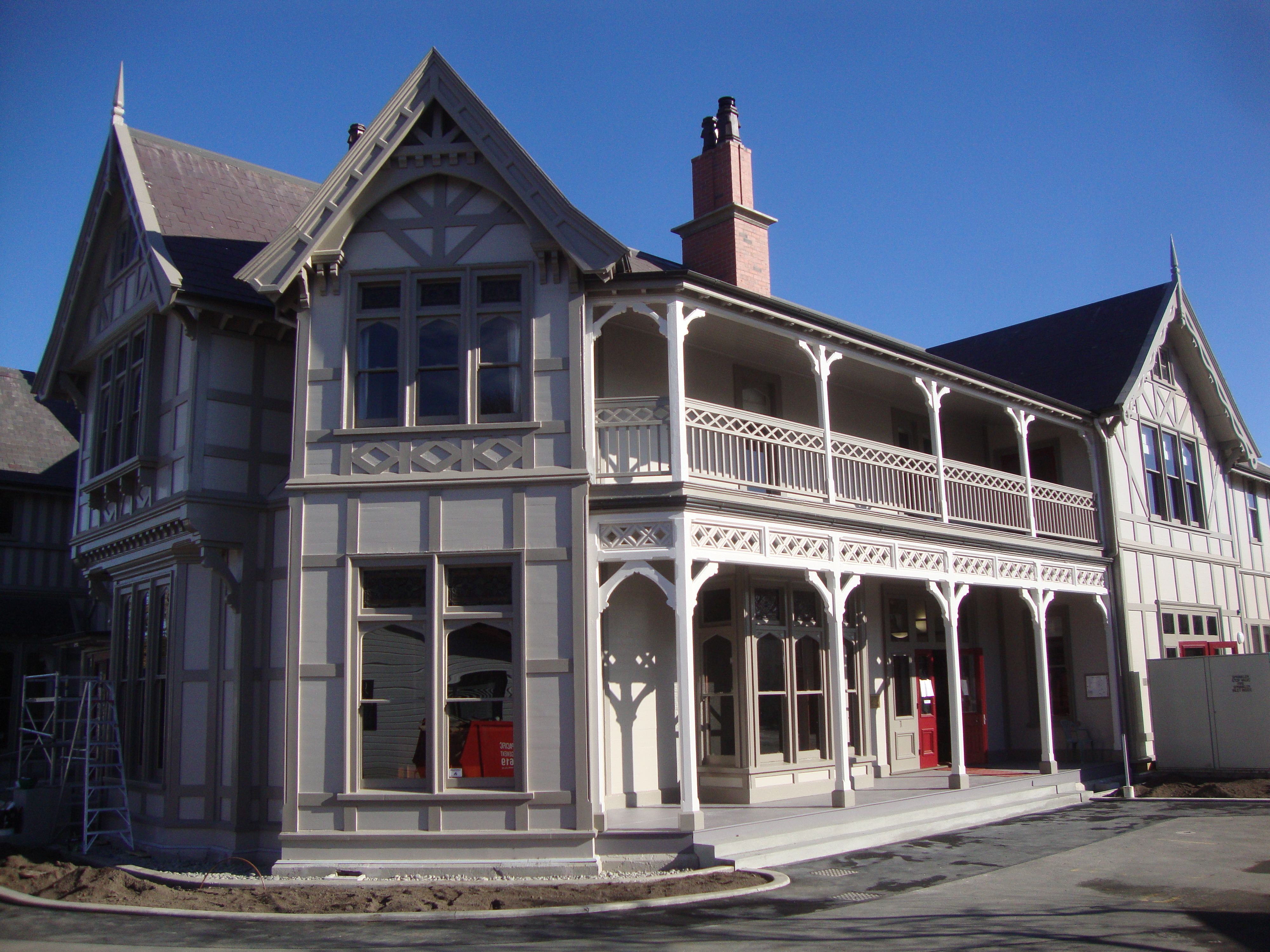 Te Koraha in July 2012.